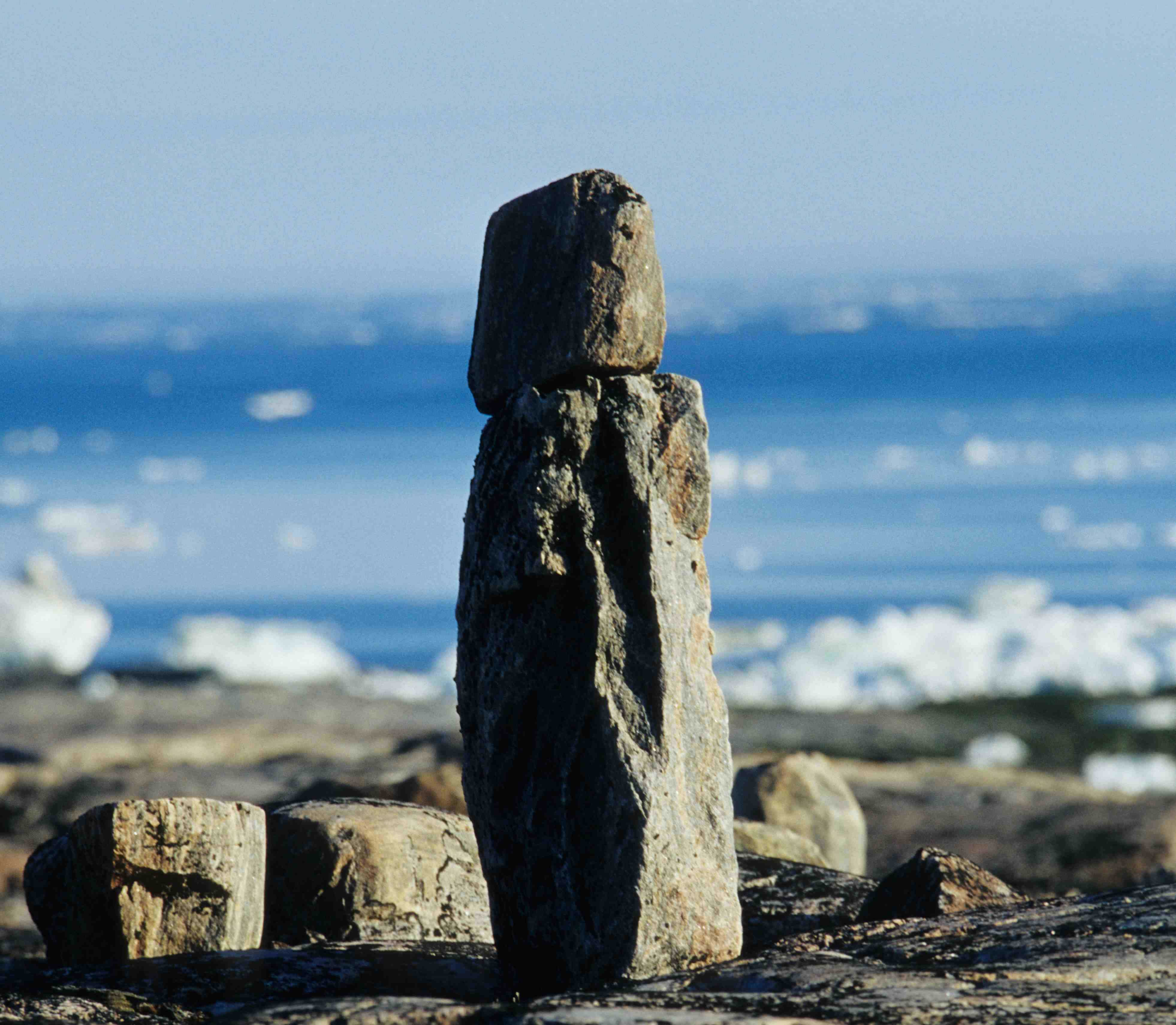 Nappatuq (which means ”he is standing upright“), Inuksuk Point, Foxe Peninsula, Nunavut, Canada